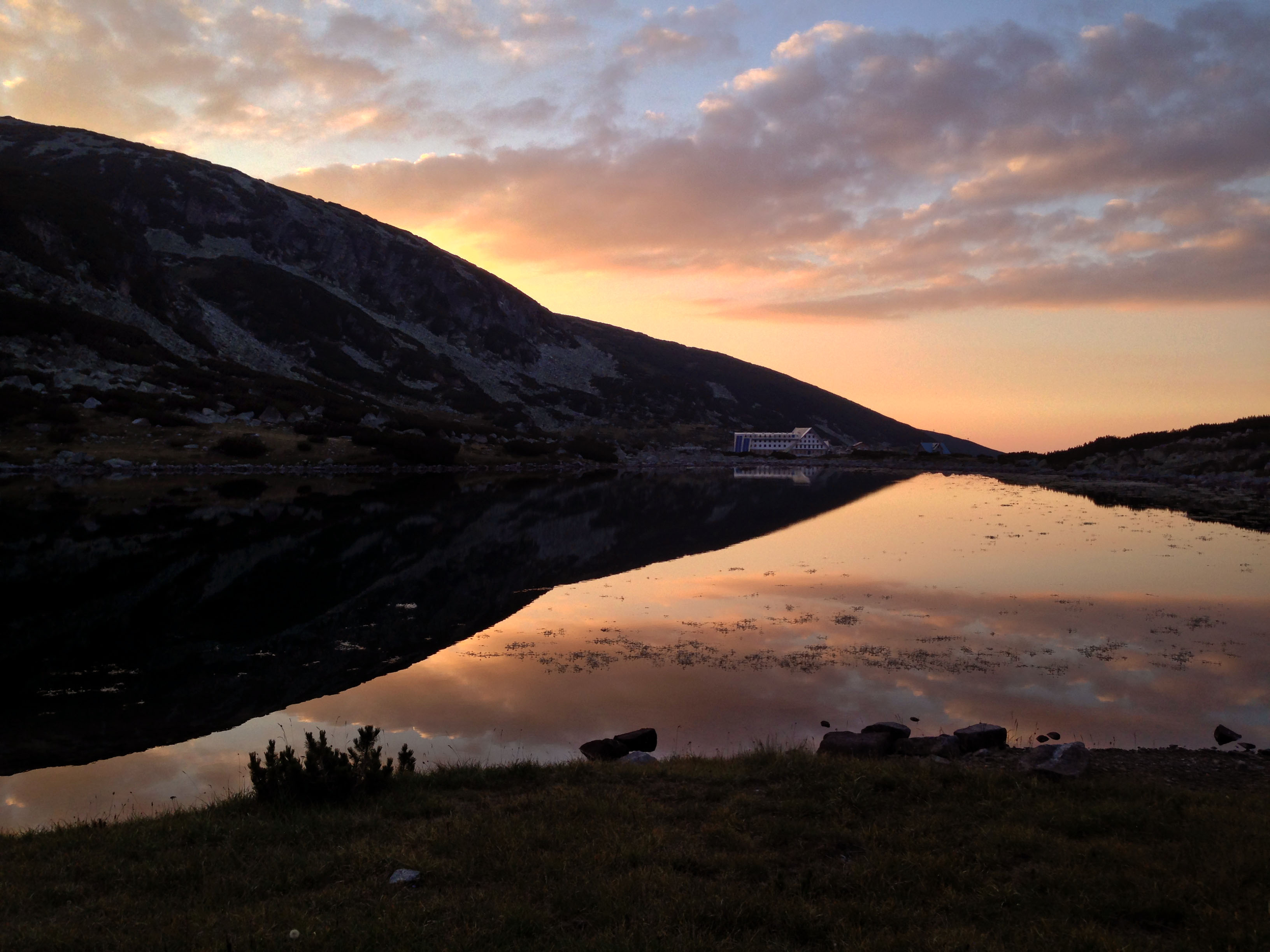 The source of the river Bistritsa (Musala) in front of Musala hut